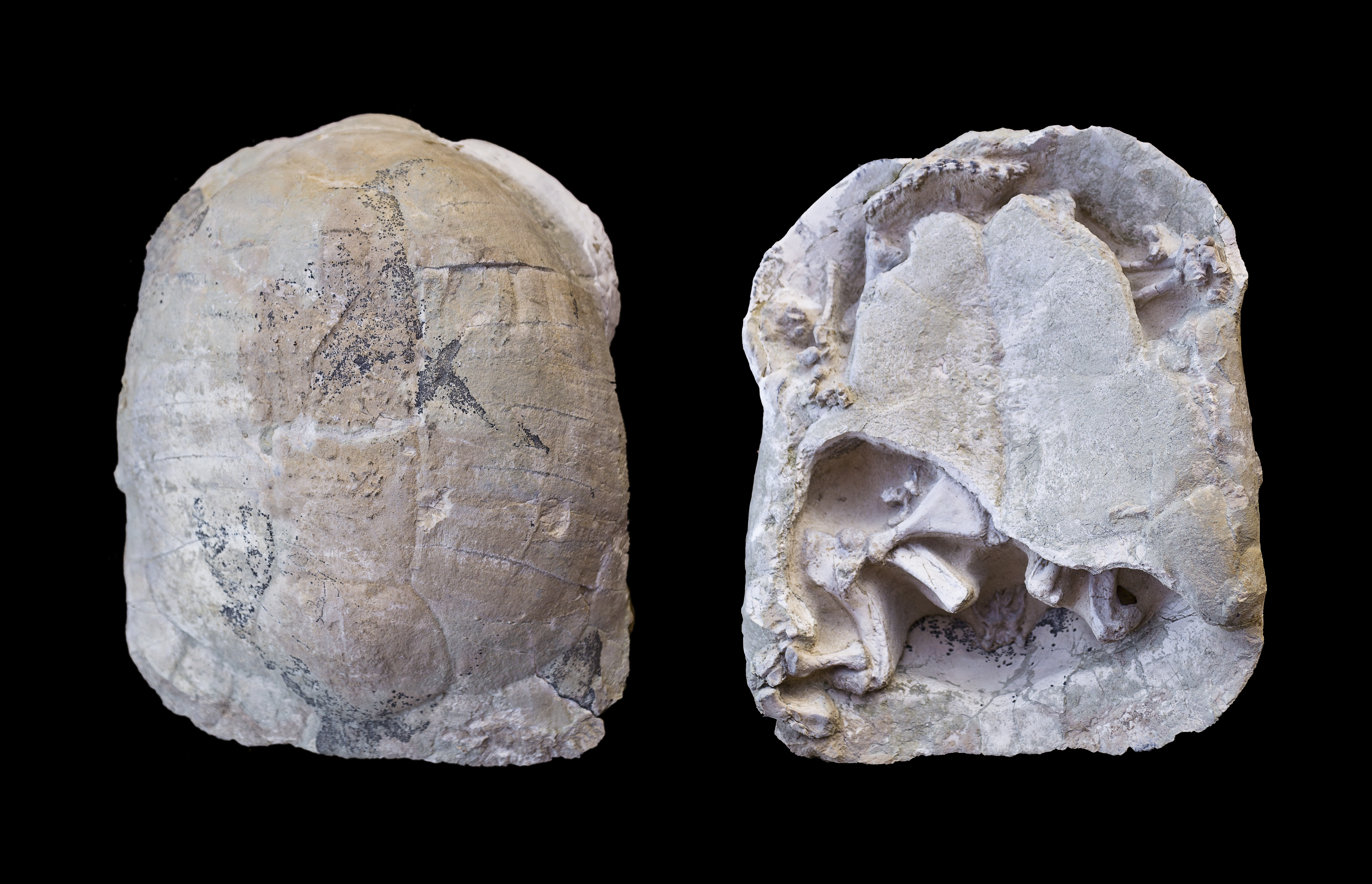 Stylemys nebrascensis - Two views of the same specimen. Stage : Brule Formation, Middle to Upper Oligocene Locality : White River badlands, (Badlands National Park), South Dakota, USA